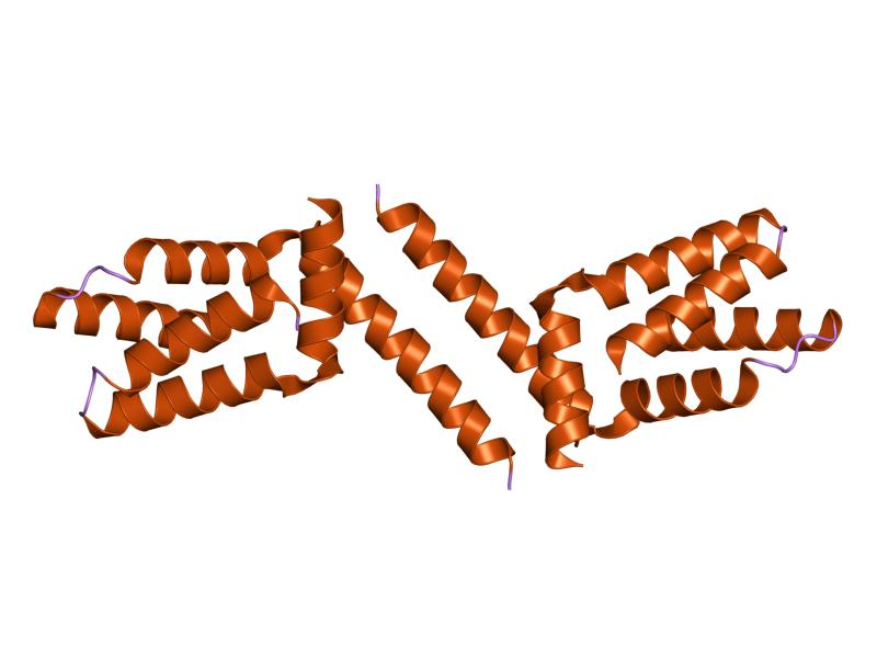 Cartoon representation of the molecular structure of protein registered with 1vf6 code.